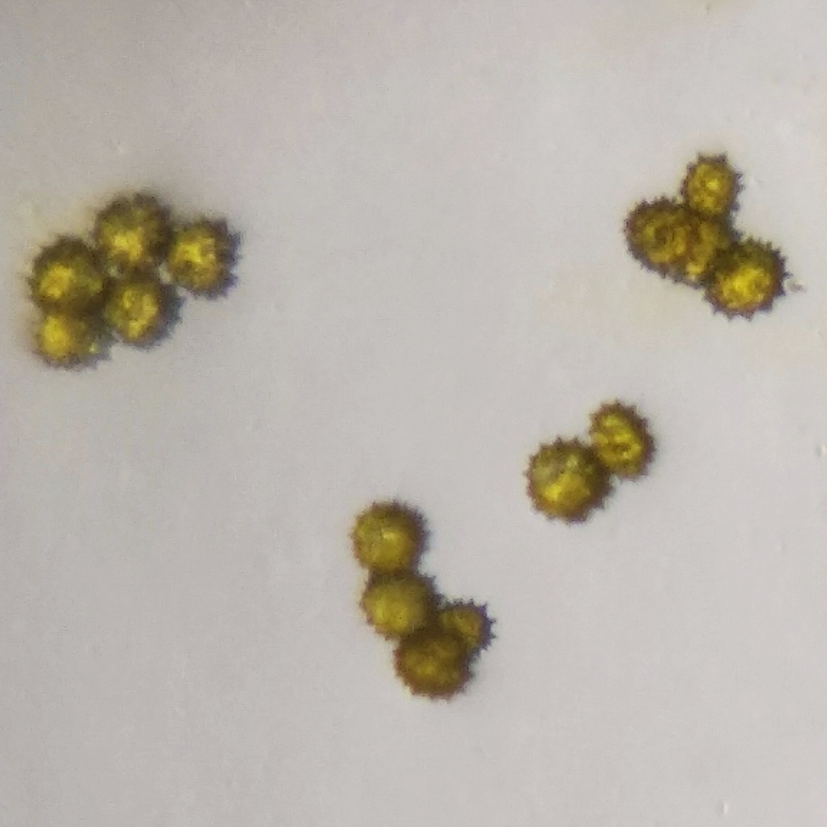 Pollens of Chrysanthemum